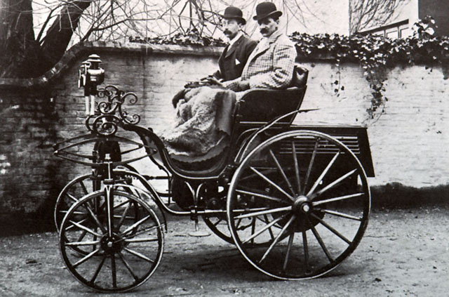 Lutzmann „Pfeil 1“ (Arrow 1), two-seater, built in 1895. Driver: Mr J. A. Koosen (owner, † 1913), Passenger: Mr Lawson. This is the „Lutzmann Carriage“ shown at the Imperial Institute Fair in May, 1896.